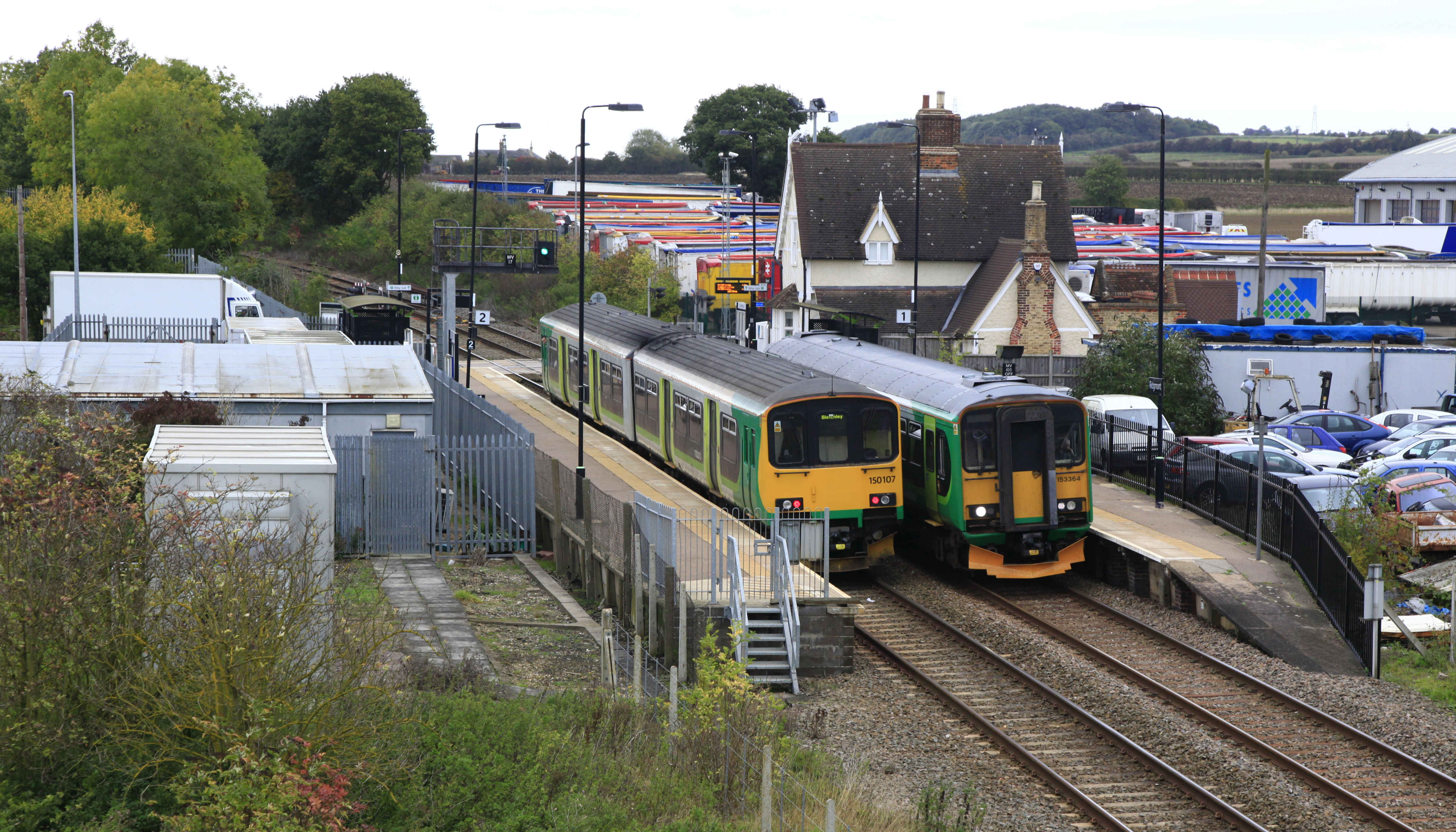 View of Ridgmont Railway Station from the A507 bypass bridge. The station is frequently a crossing point for London Midland train services on the Marston Vale railway line. A Bedford-bound class 150 two car unit is in platform 2 while a Bletchley-bound class 153 single car unit waits in Platform 1. The Marston Vale Signalling Centre is part of the collection of grey buildings at the left of the picture